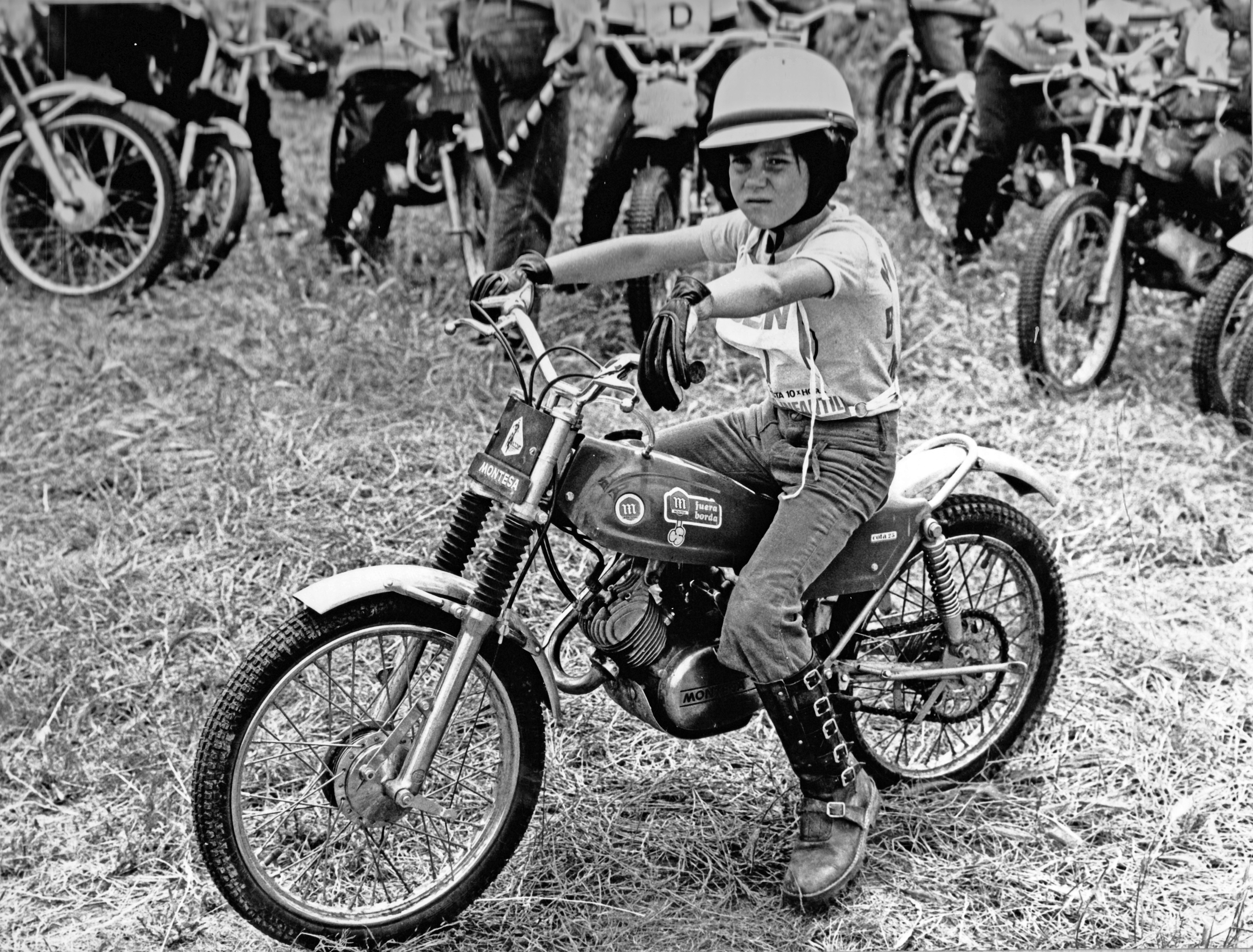 Children motorcycle trials course held per Isern and the Penya Motorista 10 x Hora around la Conreria in the early 70s